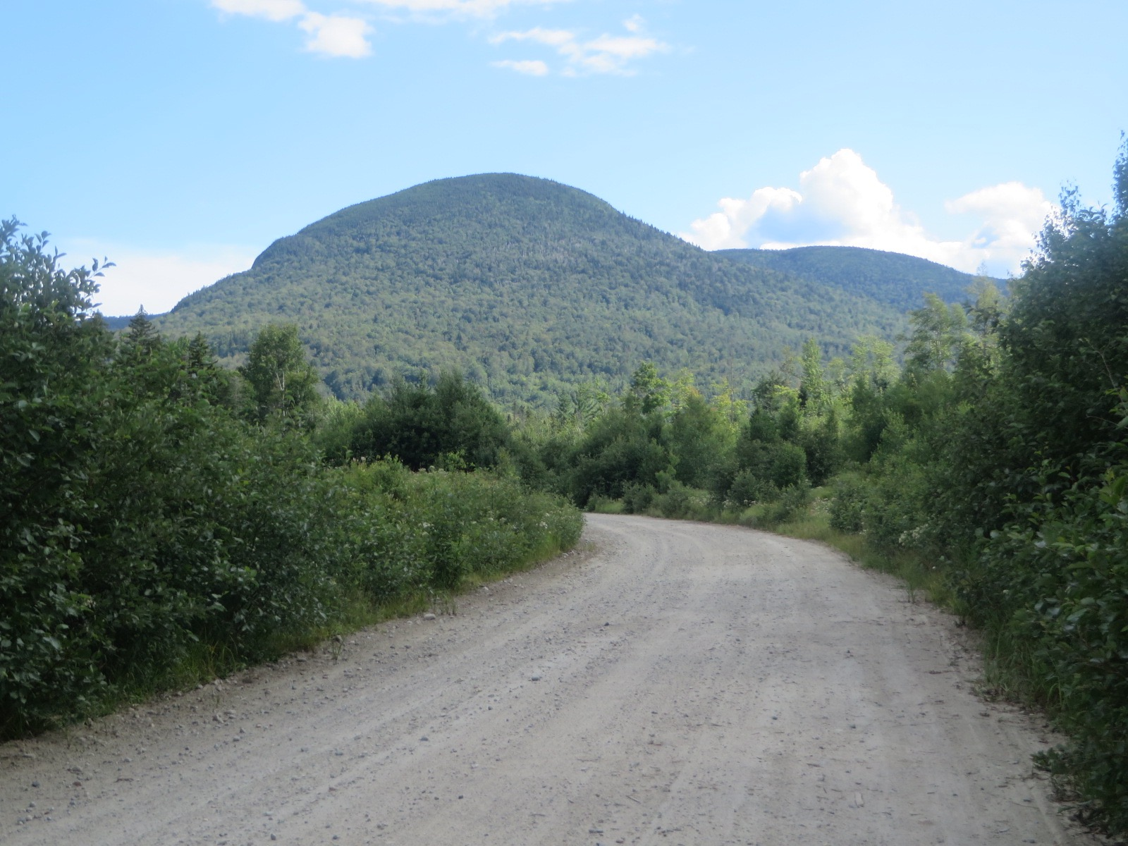 Success Pond Road, township of Success, August 2015.